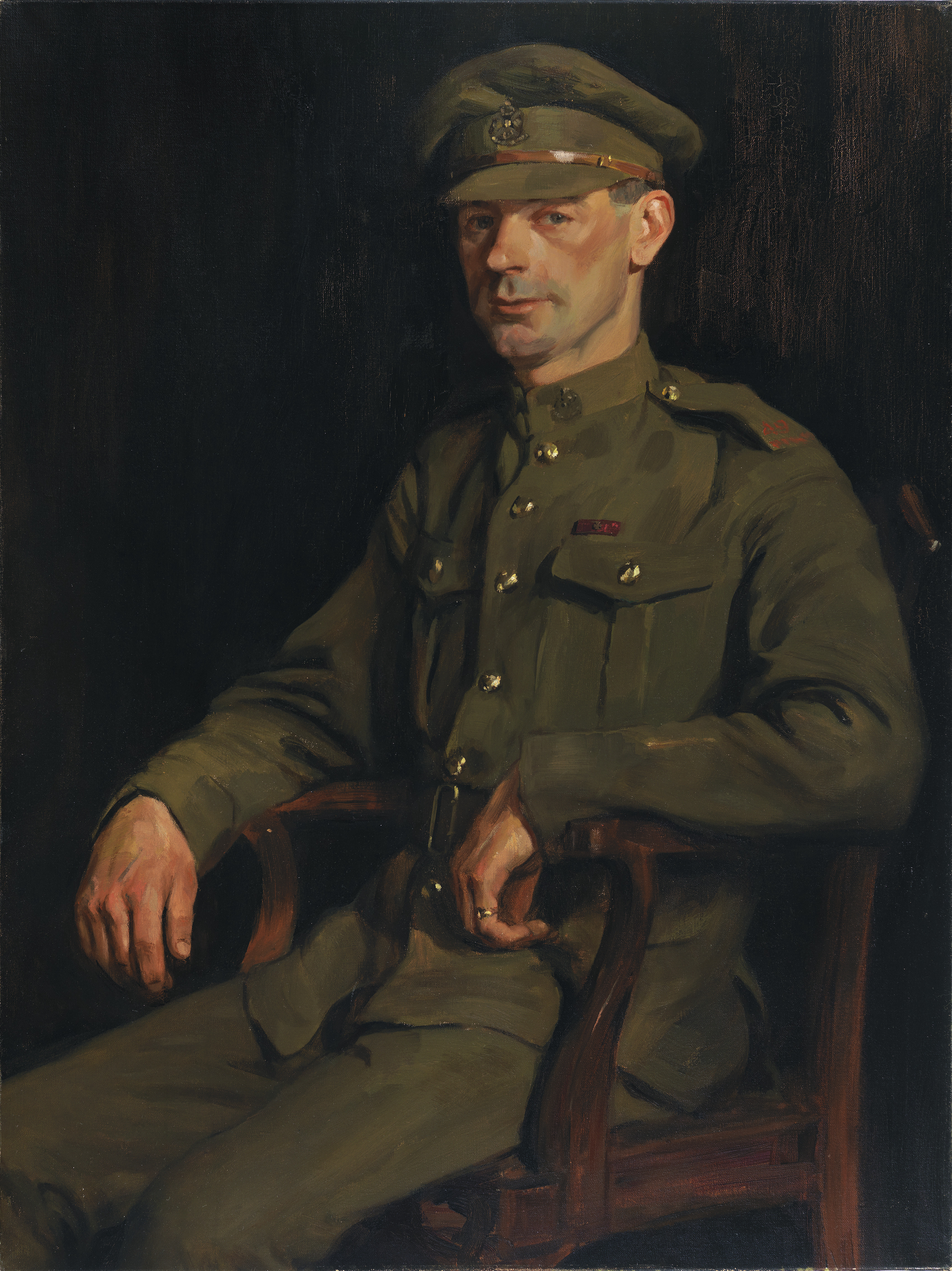 Depicted person: John Chipman Kerr